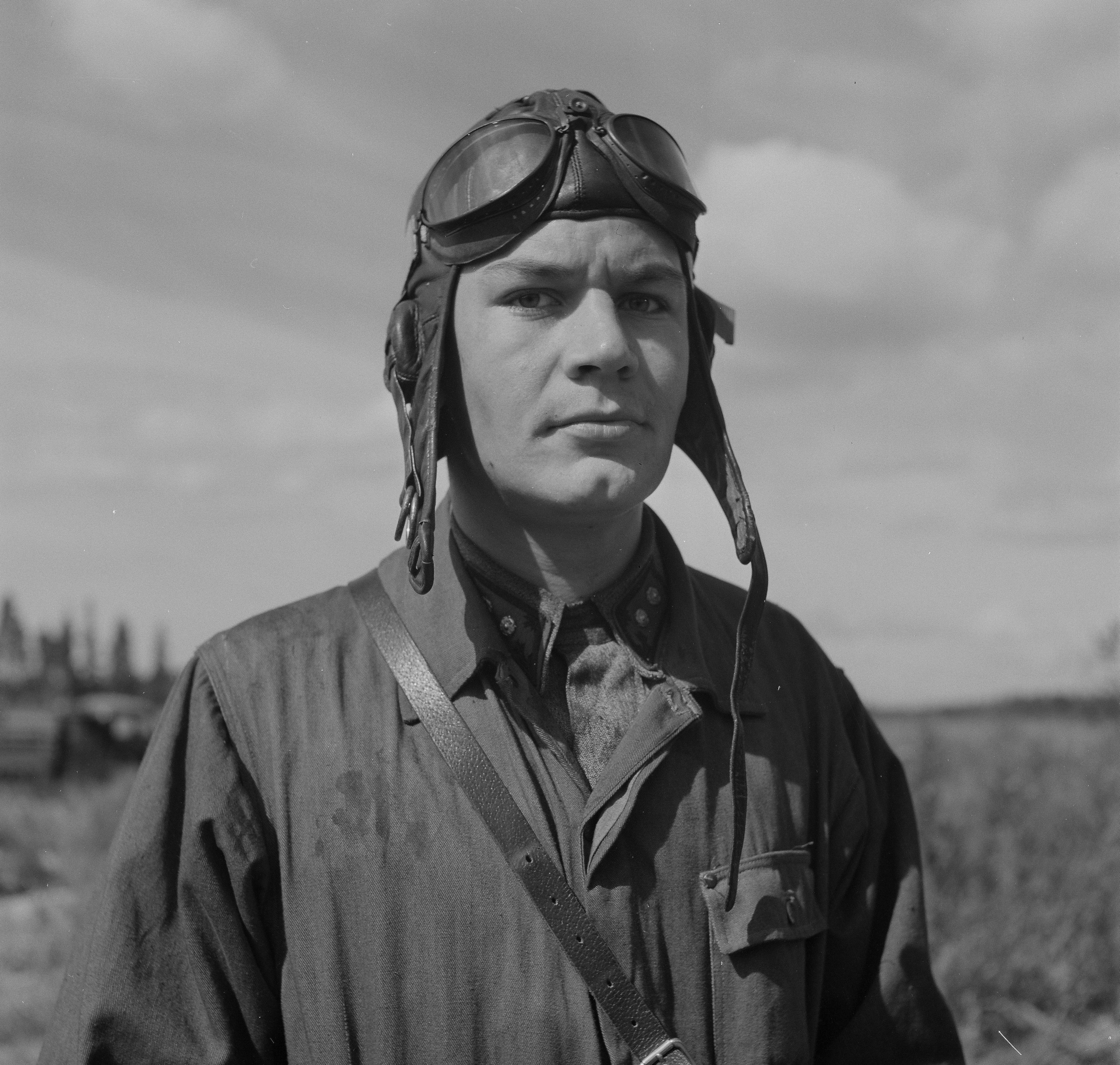 Paavo Kahla, recipient of the Mannerheim medal #54.